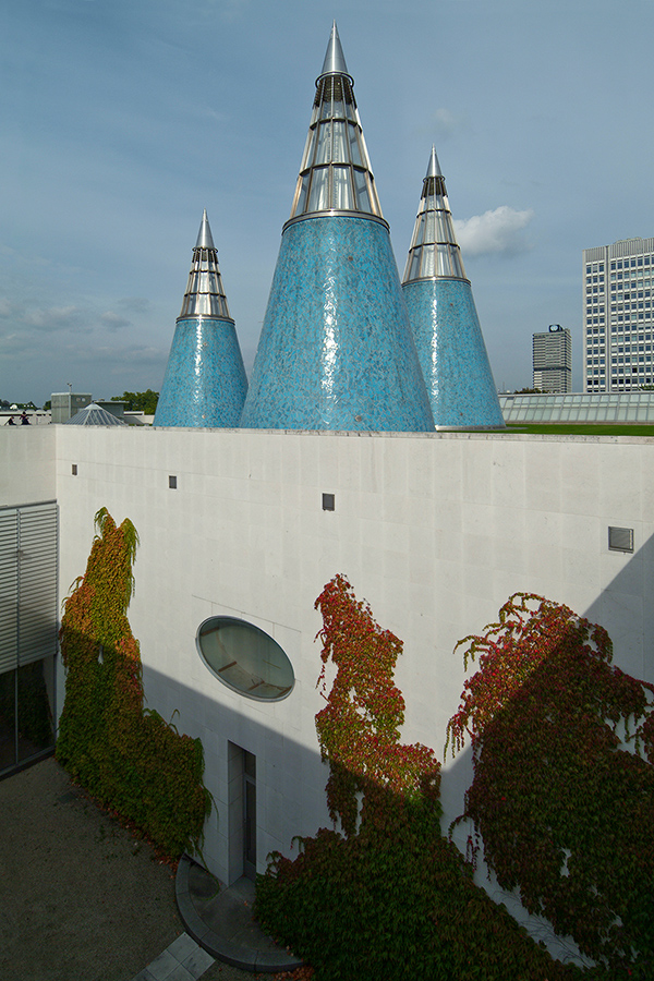 The Bundeskunsthalle in Bonn - ontop roof, Germany